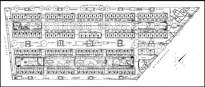 Plan of the Brumleby area of terraced houses in the Østerbro district of Copenhagen, Denmark